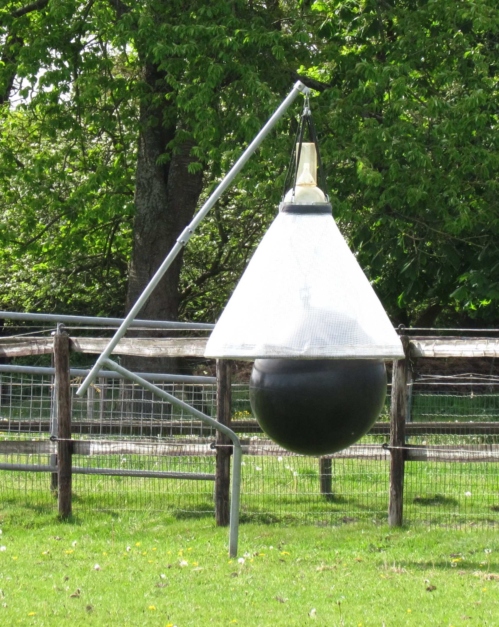 Horsefly trap in the Netherlands